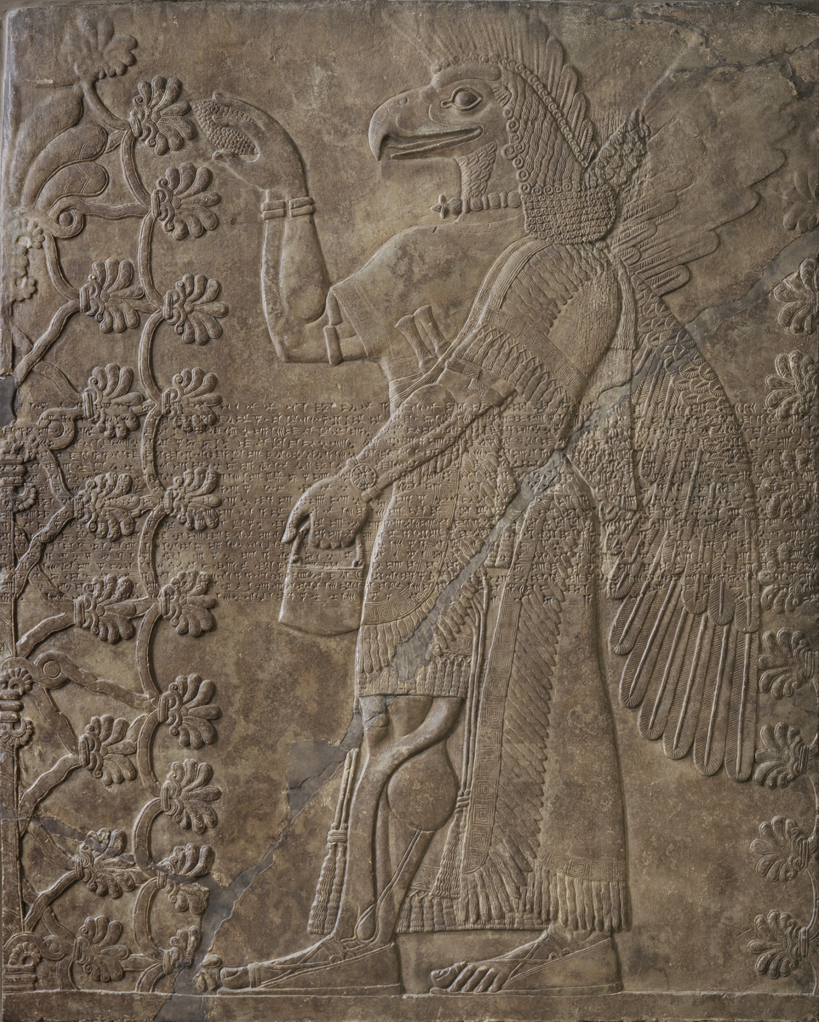 Northern Iraq, Nimrud, Neo-Assyrian Period (9th century B.C.) Sculpture Gypseous alabaster Height: 88 in. (223.52 cm) Gift of Anna Bing Arnold (66.4.4) Art of the Ancient Near East Currently on public view